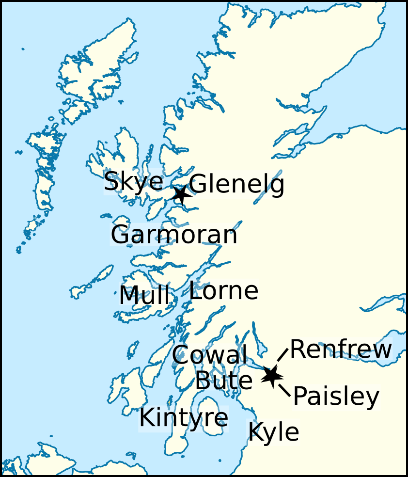 Map for the Wikipedia article concerning Aonghus mac Somhairle (died 1210).